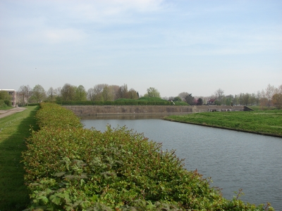 New Dutch fortification system Hellevoetsluis